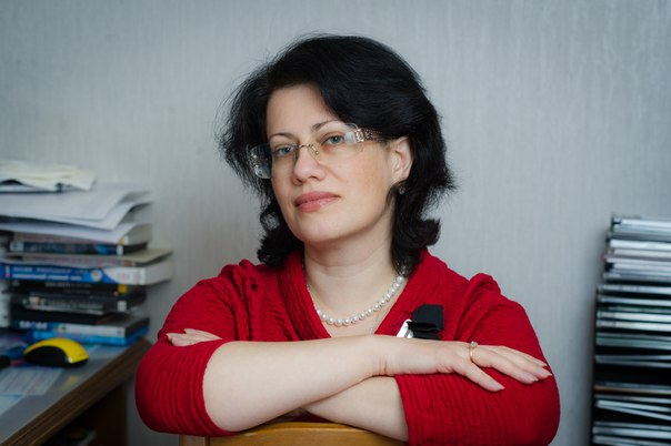 Mestergzi